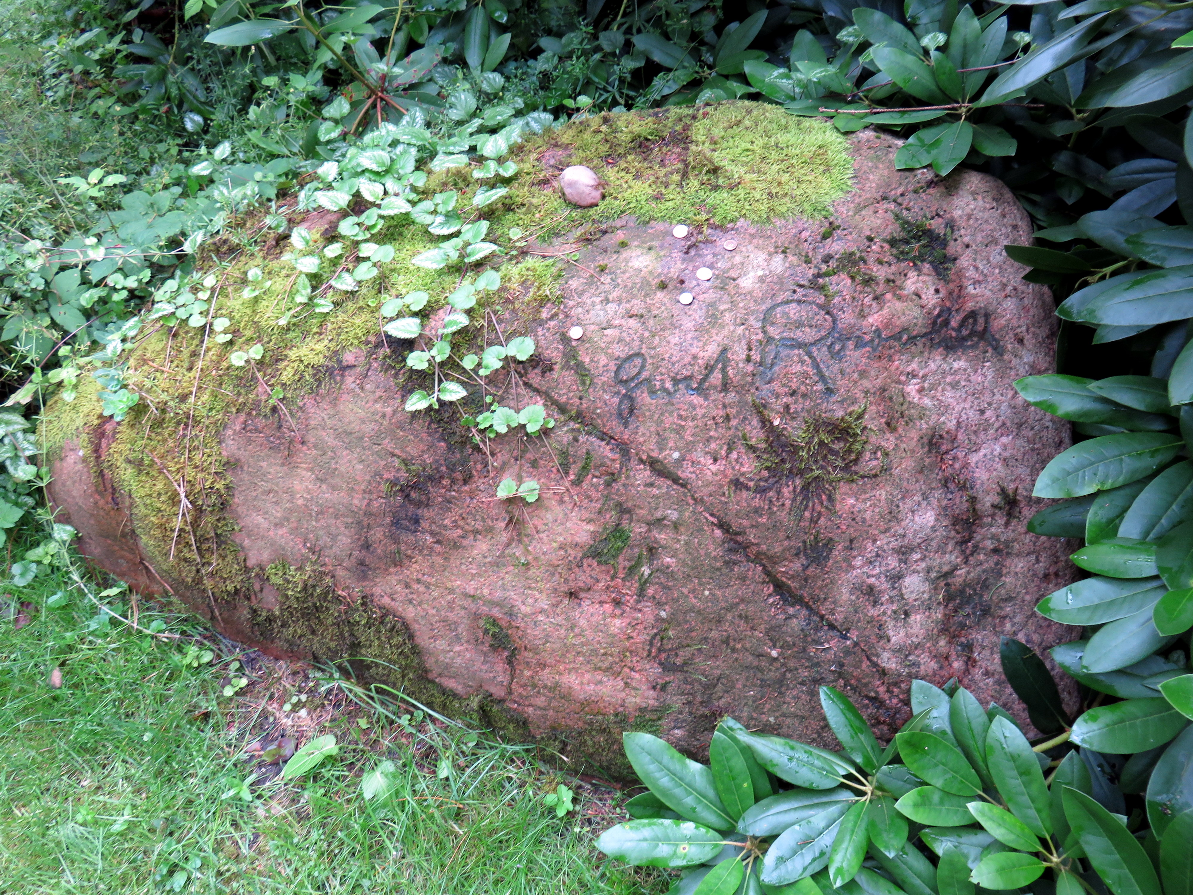 Grave for German publisher Ernst Rowohlt, cemetery Waldfriedhof Volksdorf in Hamburg-Volksdorf, situated map A k (between service office and fountain), as per July 2016.